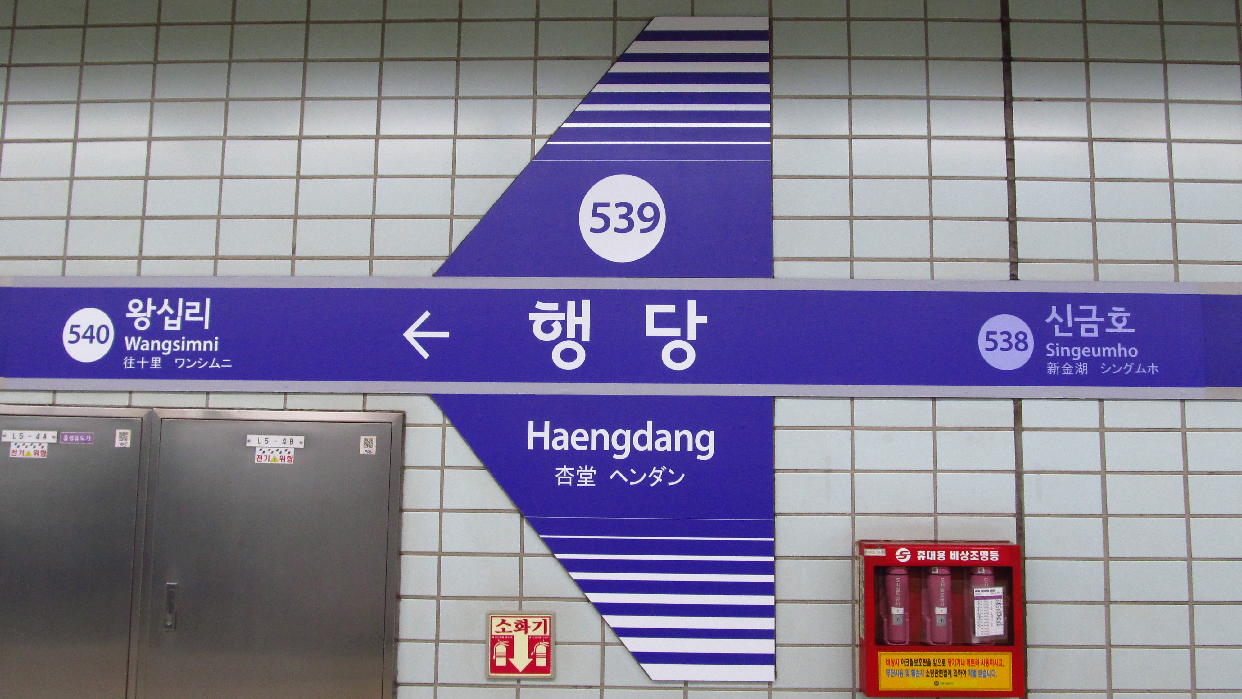 A sign of Haengdang Station on Seoul Subway Line 5